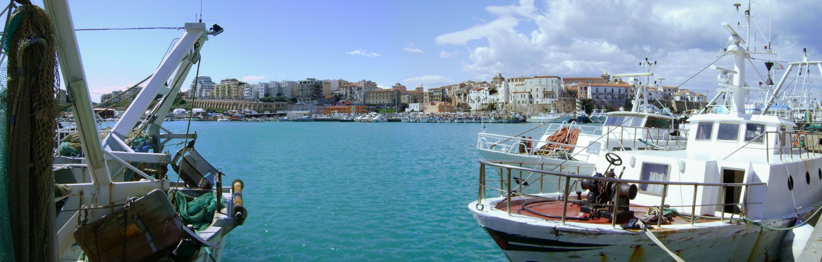 View of Termoli, in the province of Campobasso, Molise